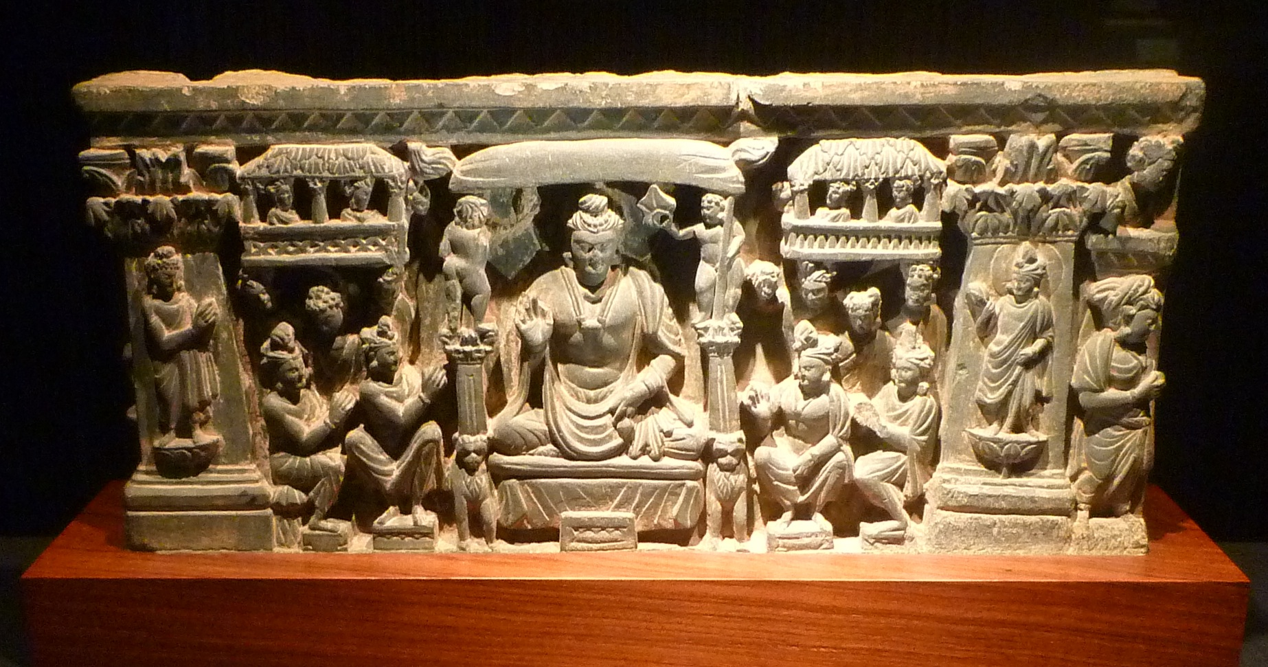 Tushita Heaven (Tuṣita Heaven) - Stone relief carving - Pakistan, Kushan dynasty, 2nd-3rd century (兜率天)